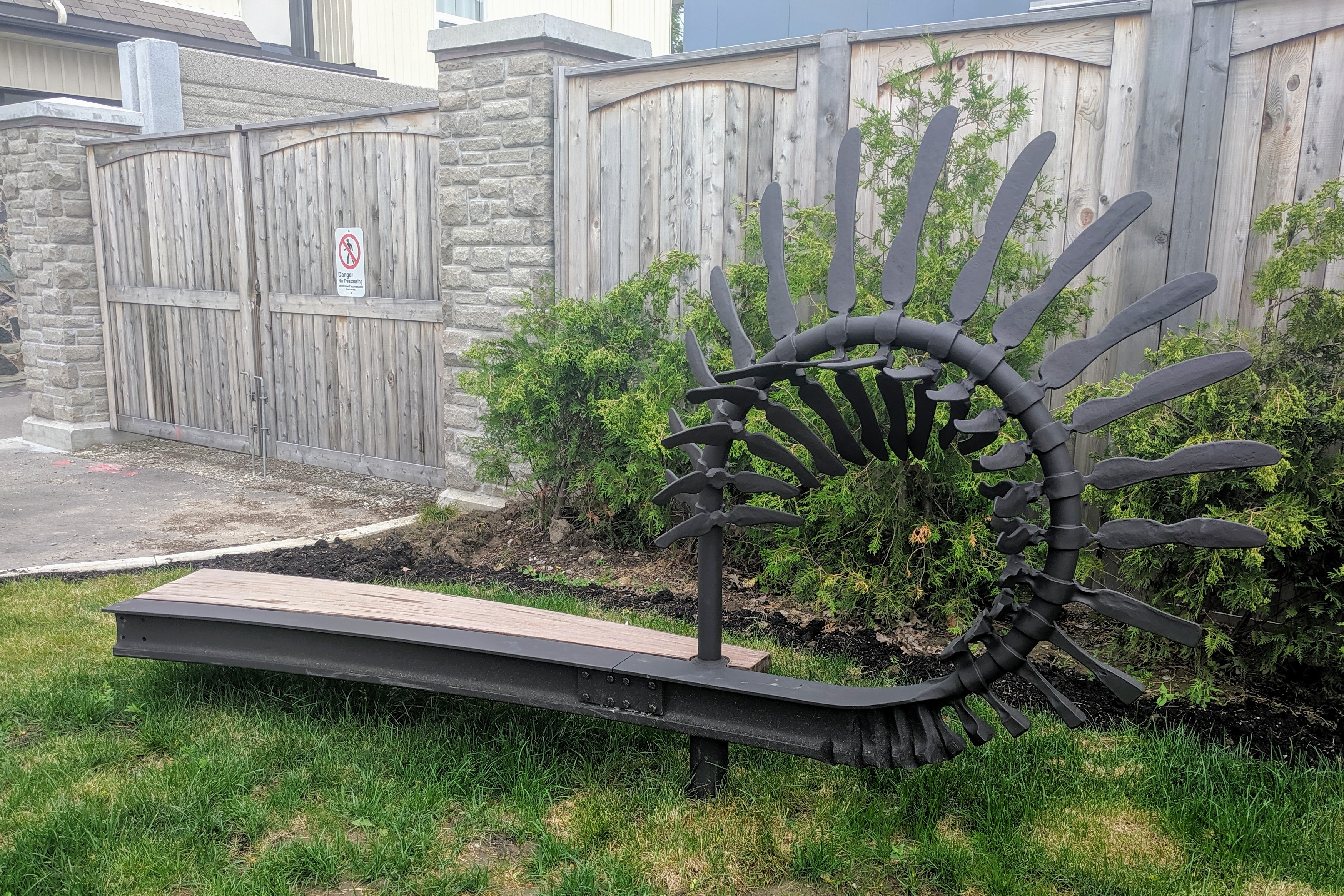 Spinal Column, sculpture by Sandra Dunn, completed 2019. King street by Pine street, Kitchener, Ontario.